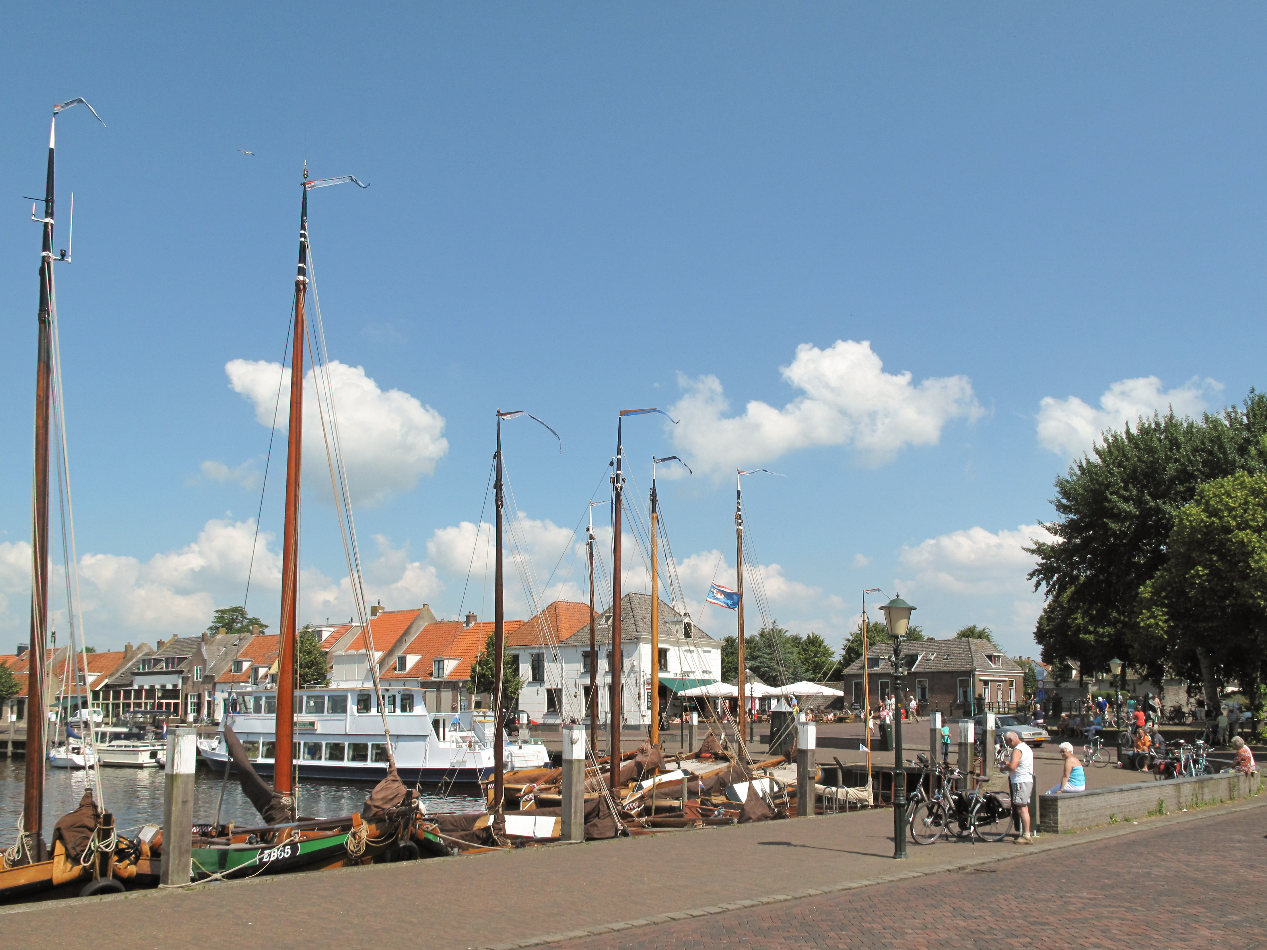 Elburg, view to a street: de Havenkade